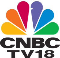 Logo of the television channel CNBC-TV18.